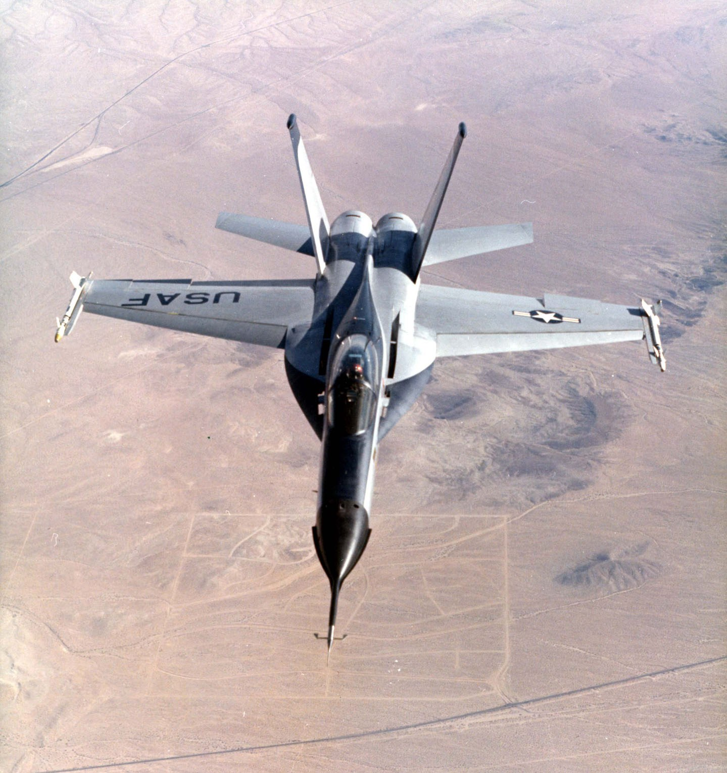 Front view of Northrop YF-17 in flight.